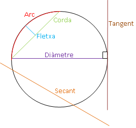 Lines related to the circle